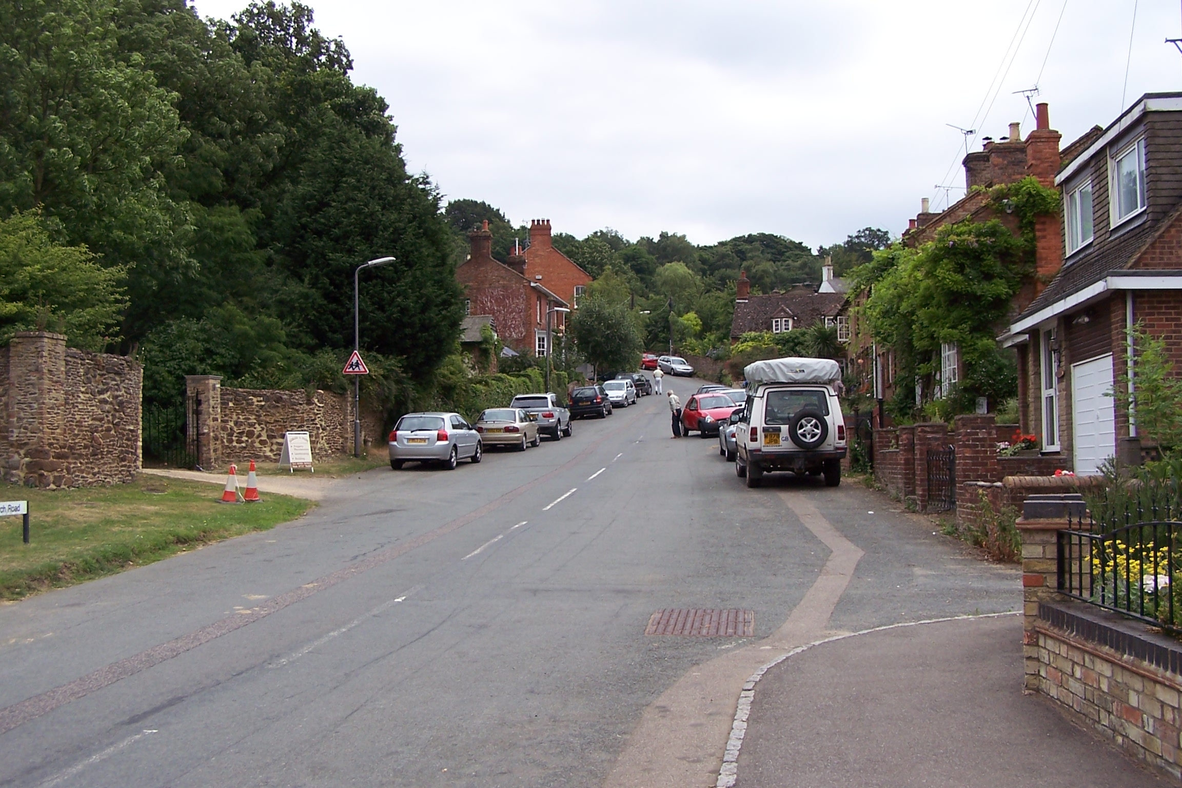 Bow Brickhill in Milton Keynes, All Saints parish church. Built 1757 on site of older church.